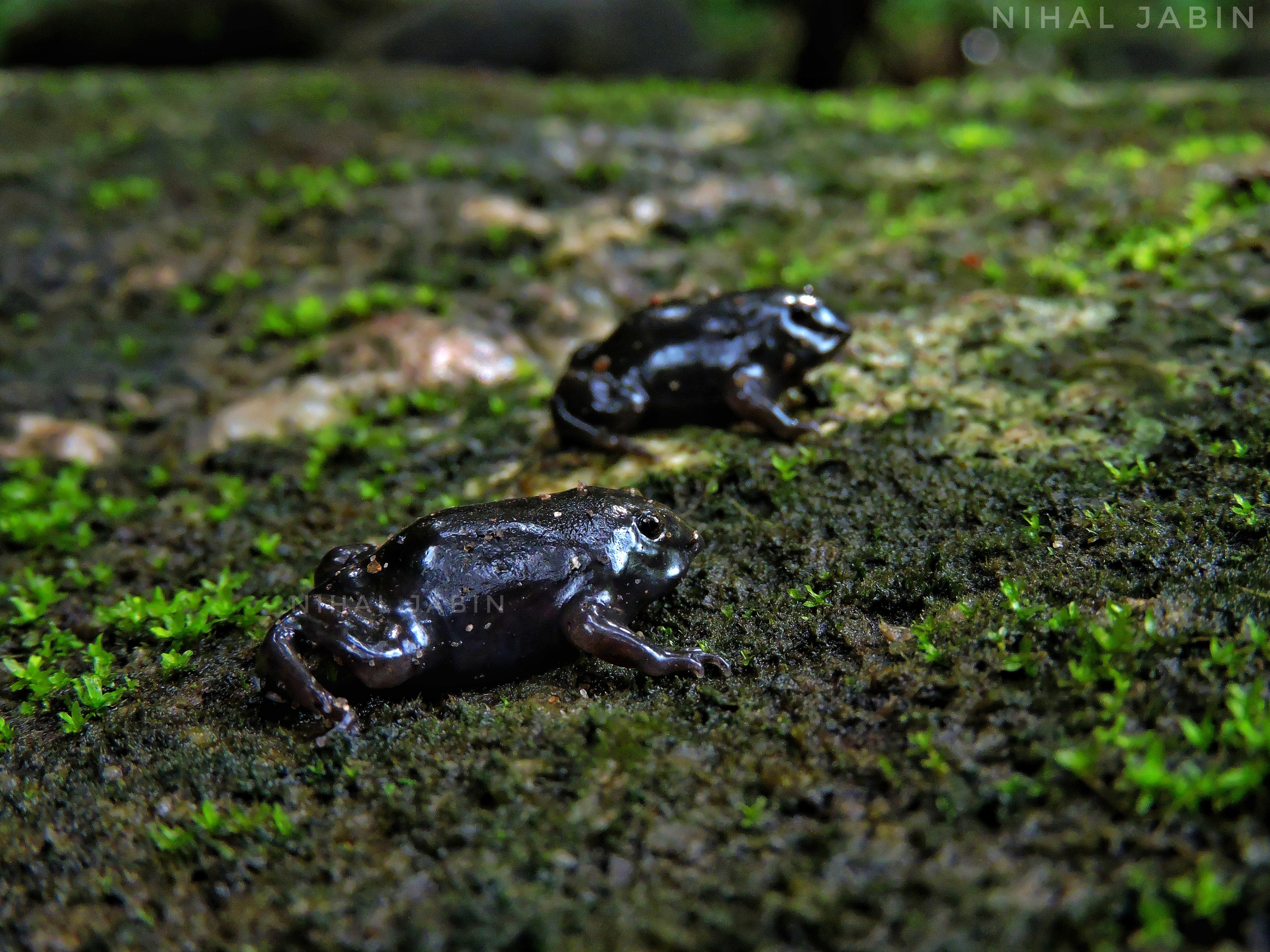 Purple frog young babies